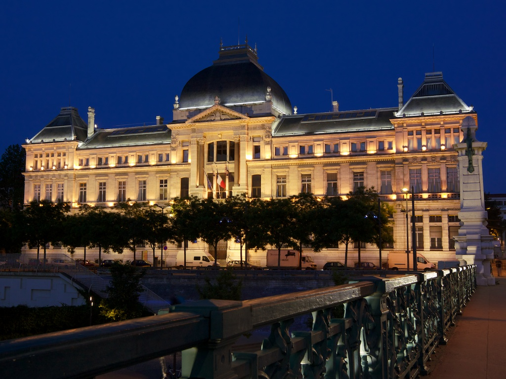 The main building of Lyon II university illuminated at night., Lyon.